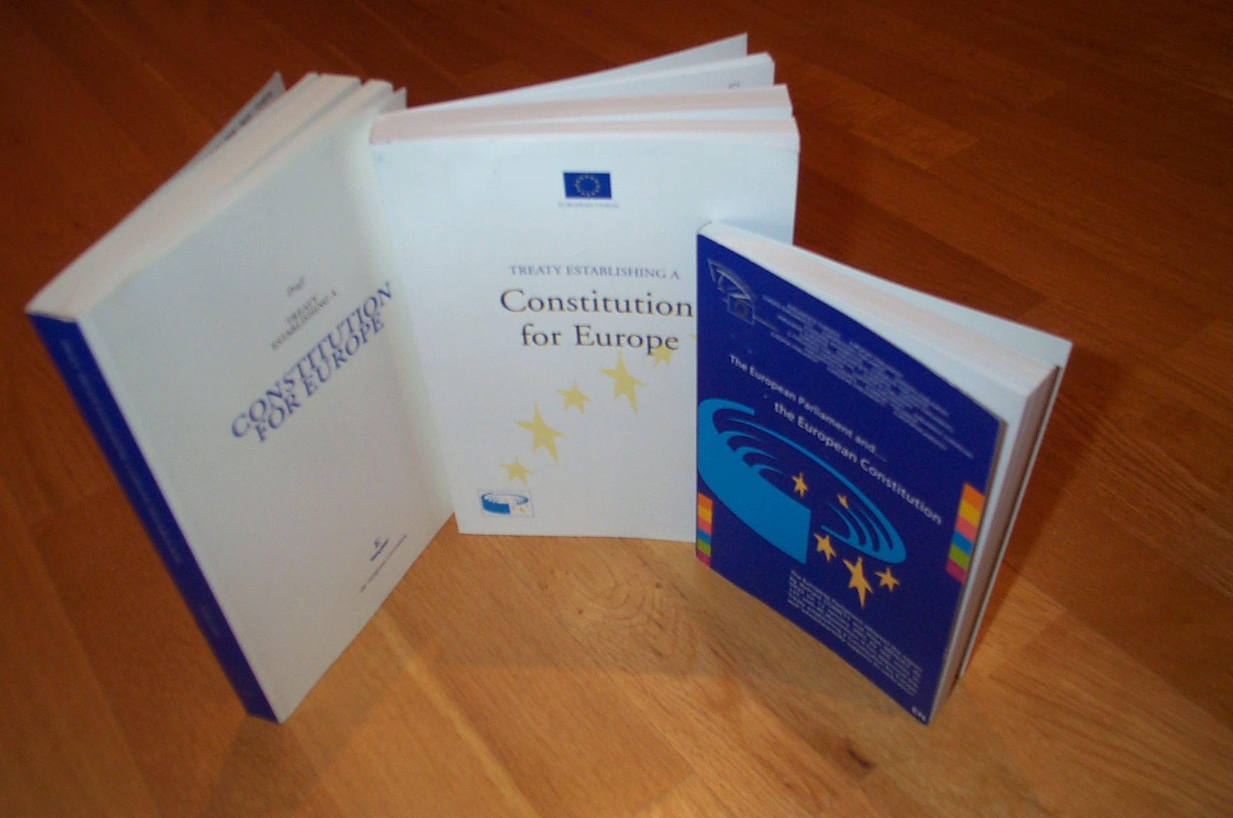 Versions of the Treaty establishing a Constitution for Europe in the English language, published by the European Union for the general public. From left to right: the draft by the European Convention; the full Intergovernmental Conference version (signed by plenipotentiaries, to be ratified) with the protocols and annexes; the abridged version with the European Parliament's resolution of endorsement, but without the protocols and annexes, for visitors to the European Parliament. Versions in other European languages were also published.